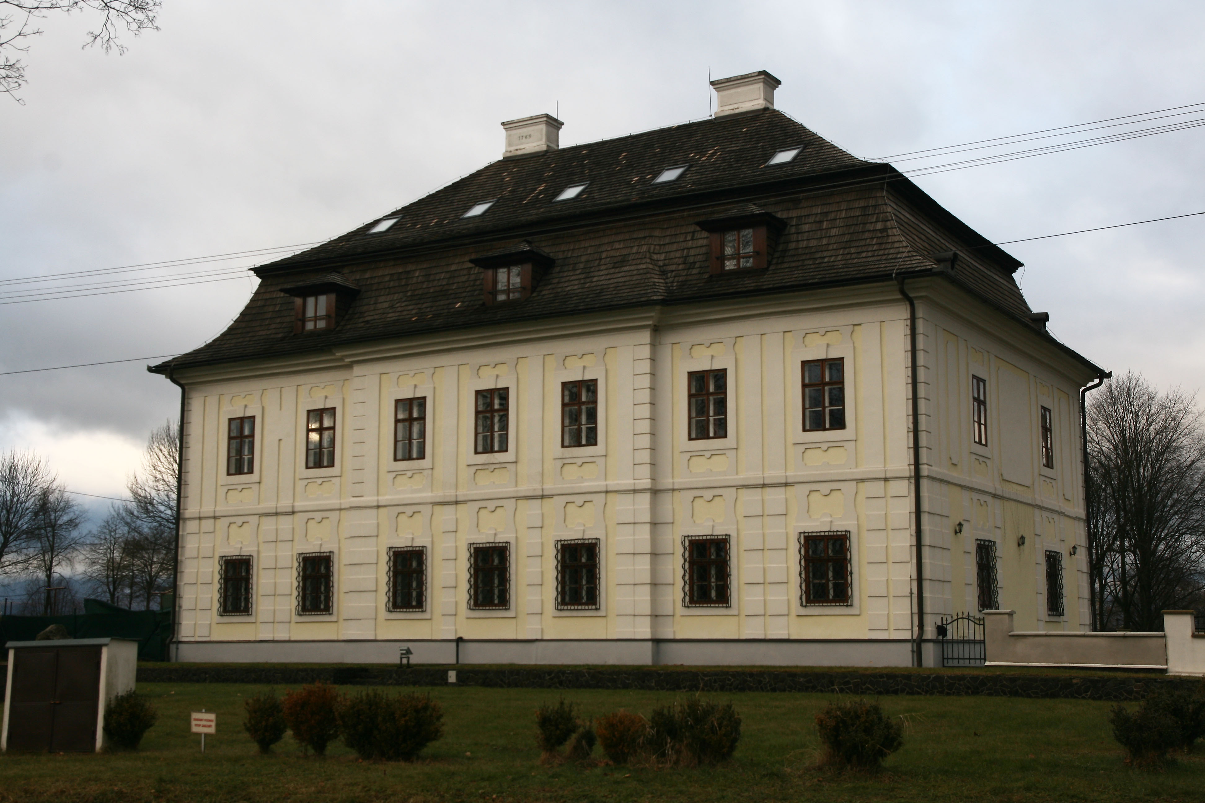 Classicist manor in Diviaky, Slovakia.